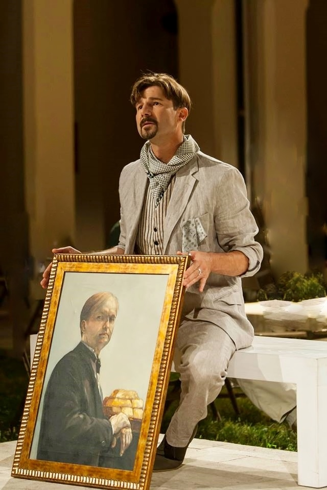 Josip Zovko in the scene of William Shakespeare as TIMON ATENJANIN (Painter), 2013 Foto: Matko Biljak